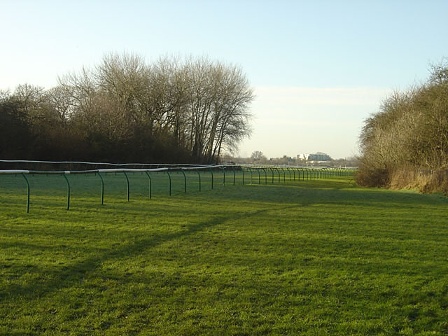 Nottingham Racecourse This is the long straight start which gives its name to the nearby 'Starting Gate' pub.